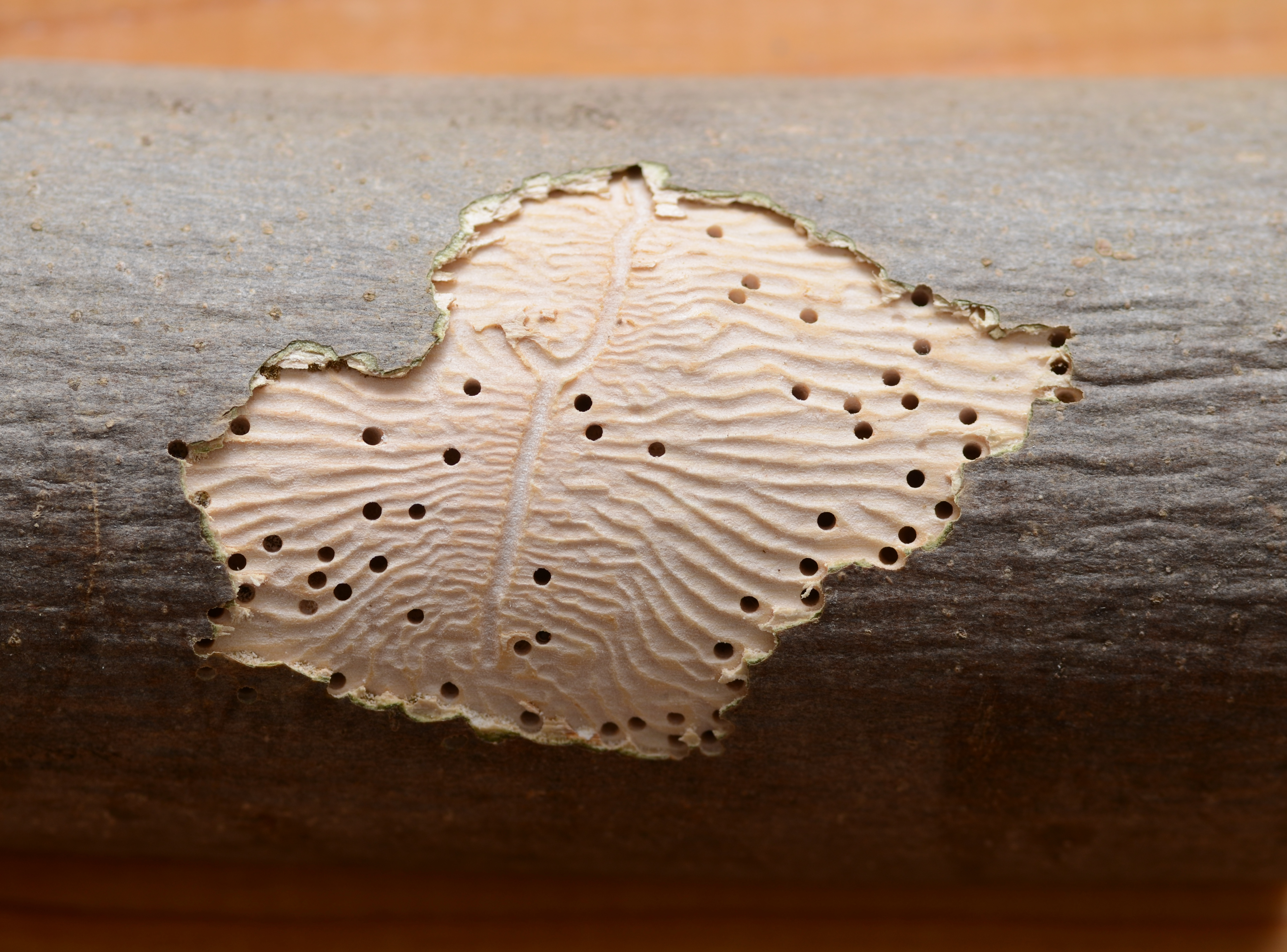 Bark beetle (Hylesinus fraxini) gallery on ash wood. The ash (Fraxinus excelsior) has been felled and was then attacked.